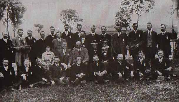 Ginninderra Farmers' Union Show Committee, 1915. Standing at rear (left to right): M. Cavanagh, F. Rolfe, T. Southwell, J. Armstrong, J. Southwell, J. Try, W. Hatch junior, E. Ryan, E. Cavanagh, A. Thornton, P. Rolfe, J. Kilby, H. Gillespie, J. Burgoyne, C. Cavanagh. Sitting in middle (left to right): unknown woman, C. Thompson (secretary), E. Crace (president), two unknown women. Sitting on ground at front (left to right): H. Curran senior (treasurer), H. Harris, P. Bourke, W. Glasscock, J. Knox (judge), A Campbell, W. Gale (reporter), A Curran, T. Ryan.